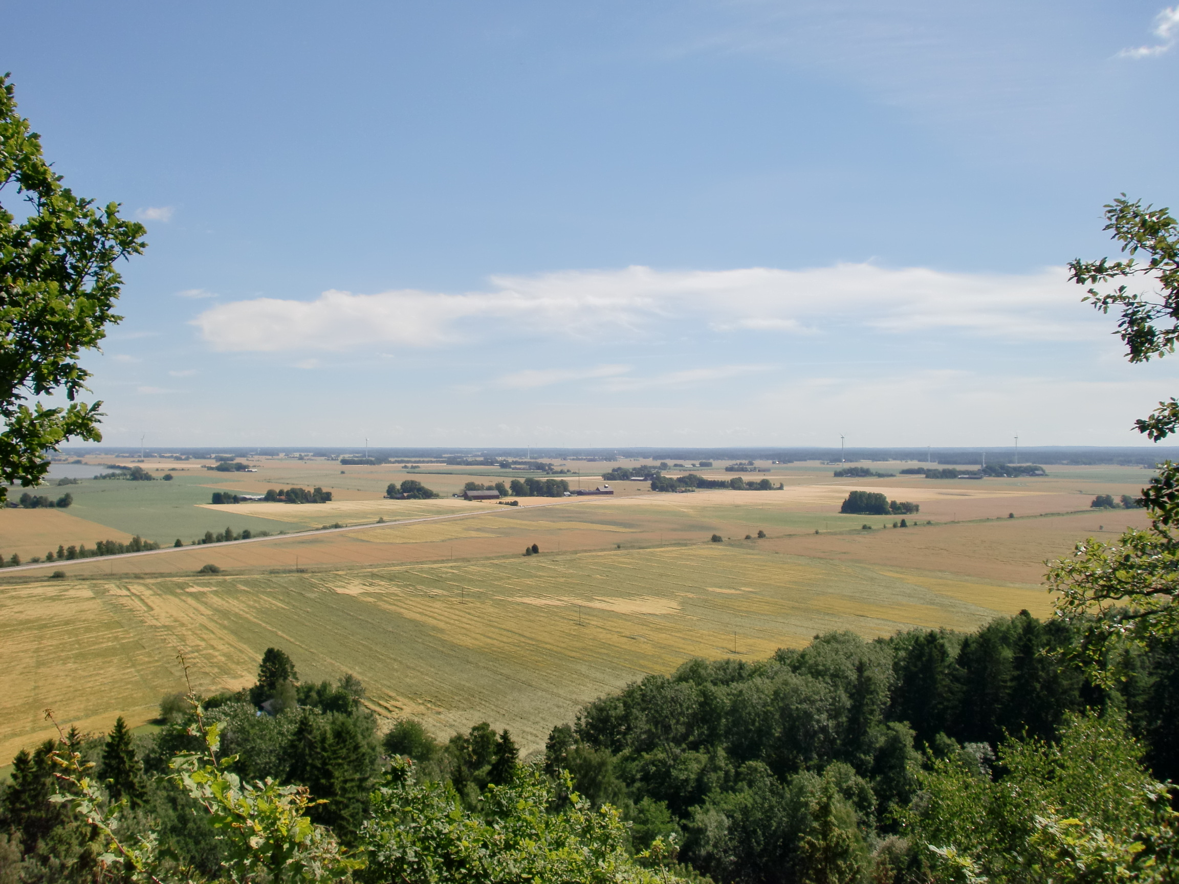 Grästorp municipality seen from the mountain Hunneberg towards southeast.